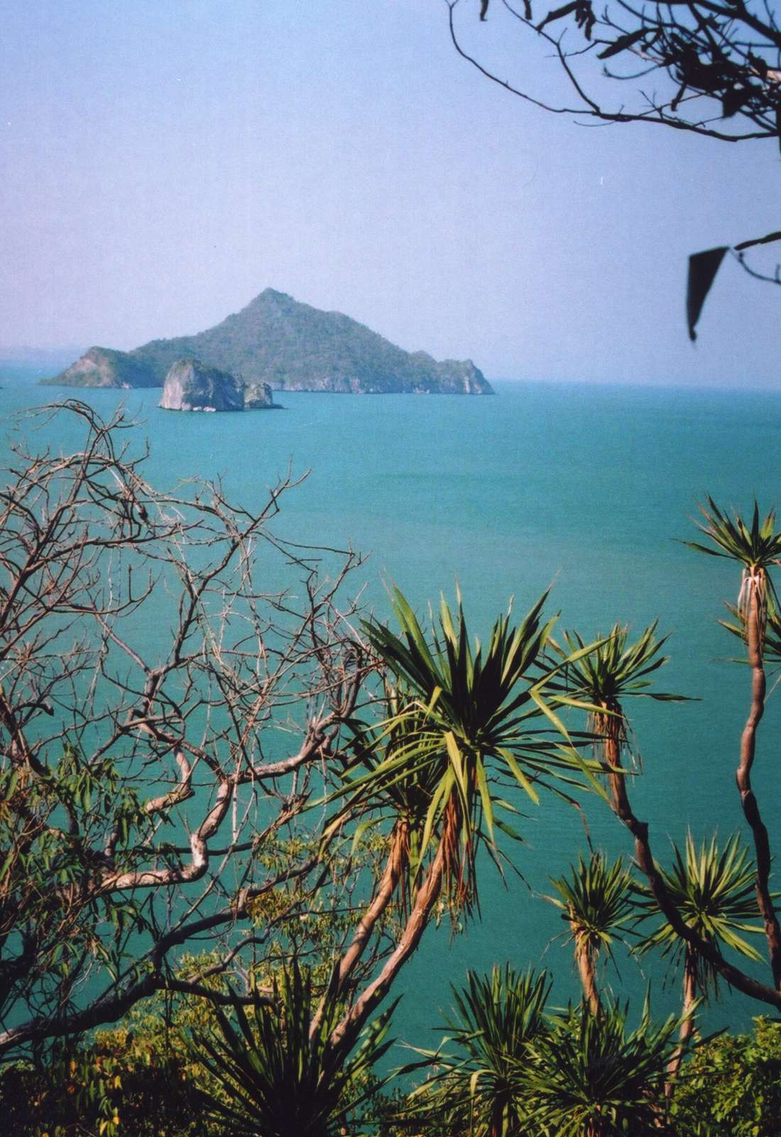 The bay of Bang Pu, located inside the Khao Sam Roi Yod national park, Prachuap Khiri Khan province, Thailand. Photo taken by User:Ahoerstemeier on January 12 2005.